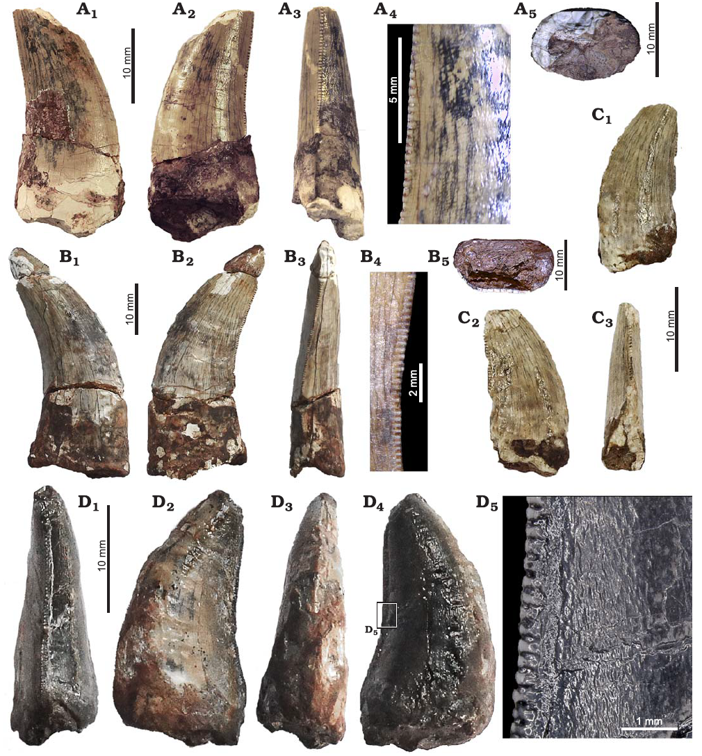 Theropod teeth from the Middle Jurassic Tegama Group, Agadez, Niger. A. MUPE HB-142 in labial (A1), lingual (A2), distal (A3), and basal (A5)views, close-up (A4). B. MUPE HB-118 in lateral (B1, B2), distal (B3), and basal (B5) views, close-up (B4). C. MUPE HB-125 in lateral (C1, C2) and distal(C3) views. D. Spinosaurid tooth, MUPE HB-87 in distal (D1), lingual (D2), mesial (D3), and labial (D4) views; close-up view of the labial side (D5); notethe deeply veined enamel surface texture and the shape and size of the distal denticles.